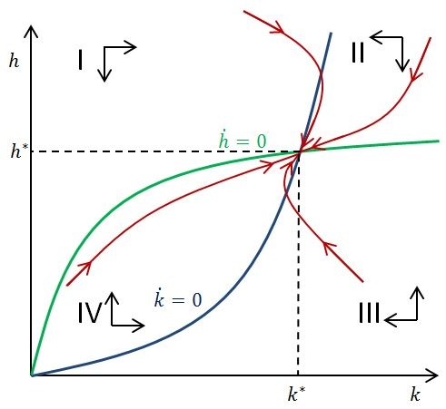 Mankiw-Romer-Weil model, Phase diagram